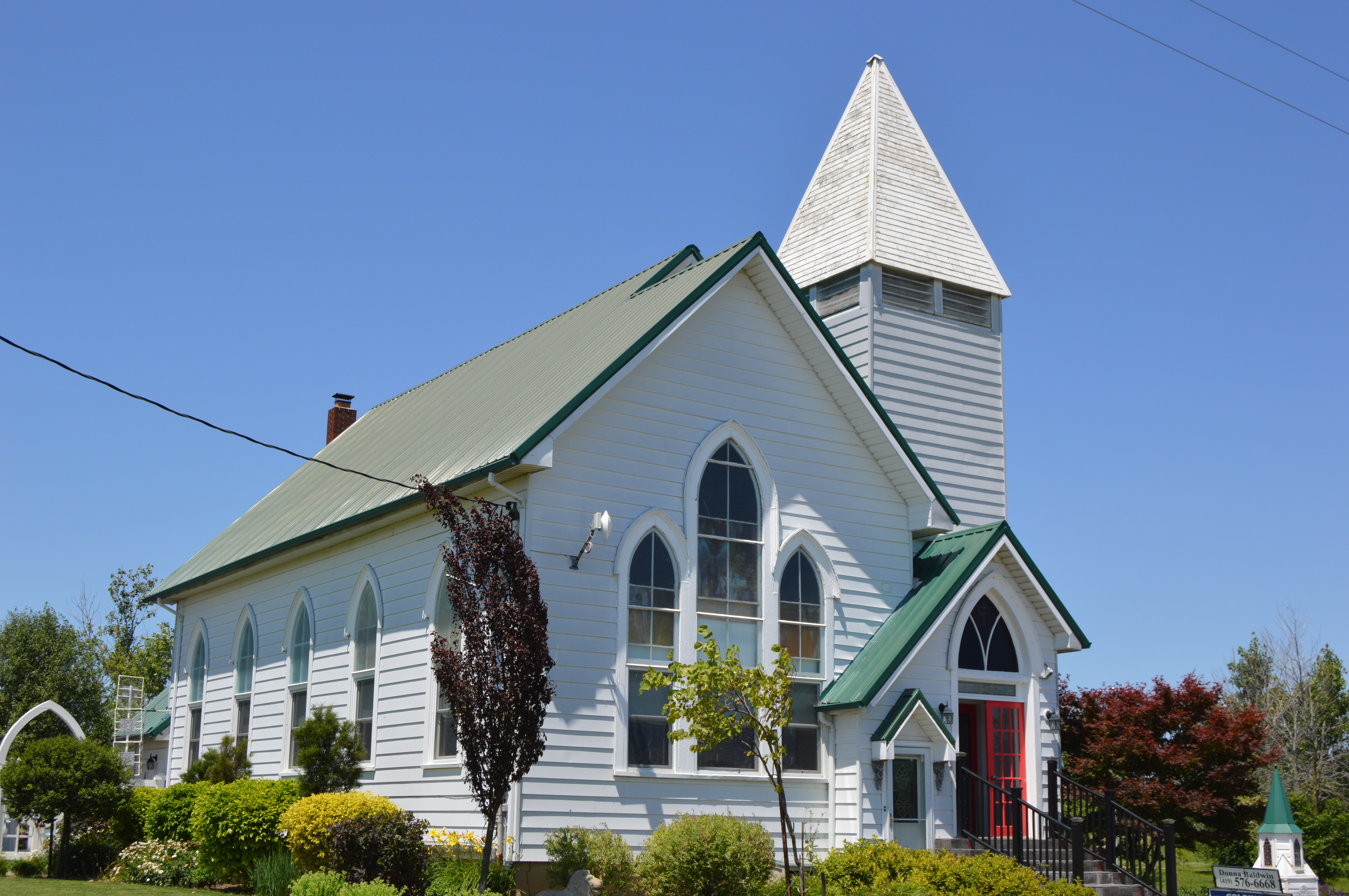 Front and southern side of the former Hartsburg United Methodist Church, located at the junction of State Route 613 and Road 24 west of Continental in Monroe Township, Putnam County, Ohio, United States.